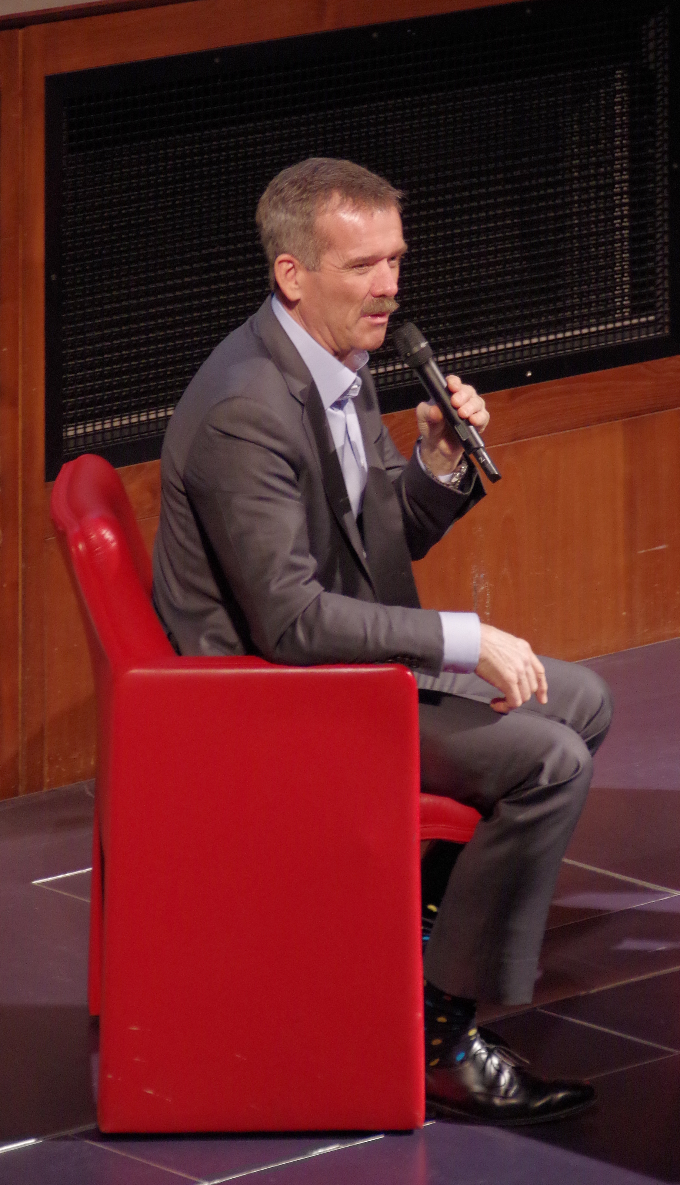 Canadian astronaut Commander Chris Hadfield being interviewed at a Guardian Live event at the Royal Geographic Society in London.